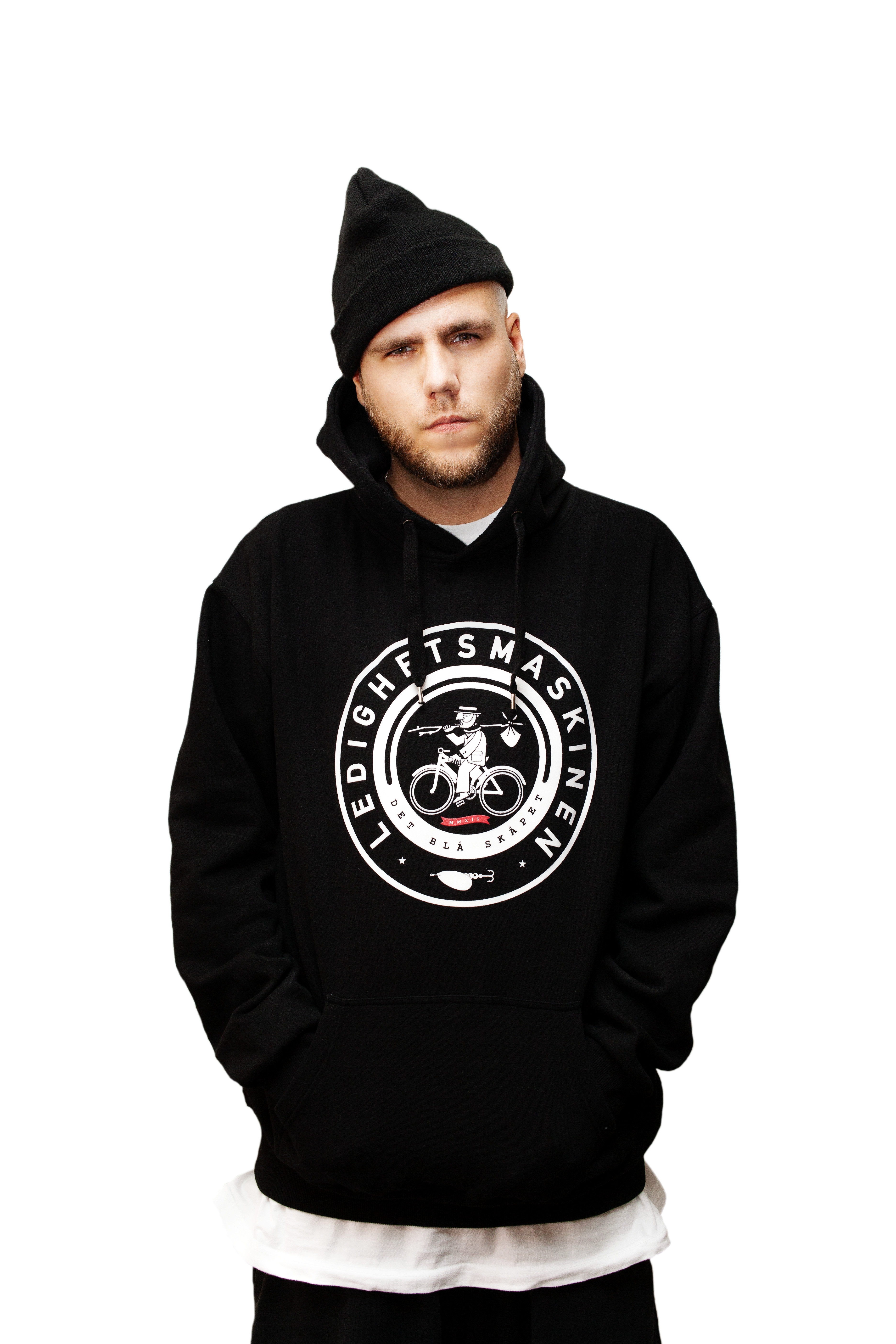 Press photo of Swedish rapper Organismen.